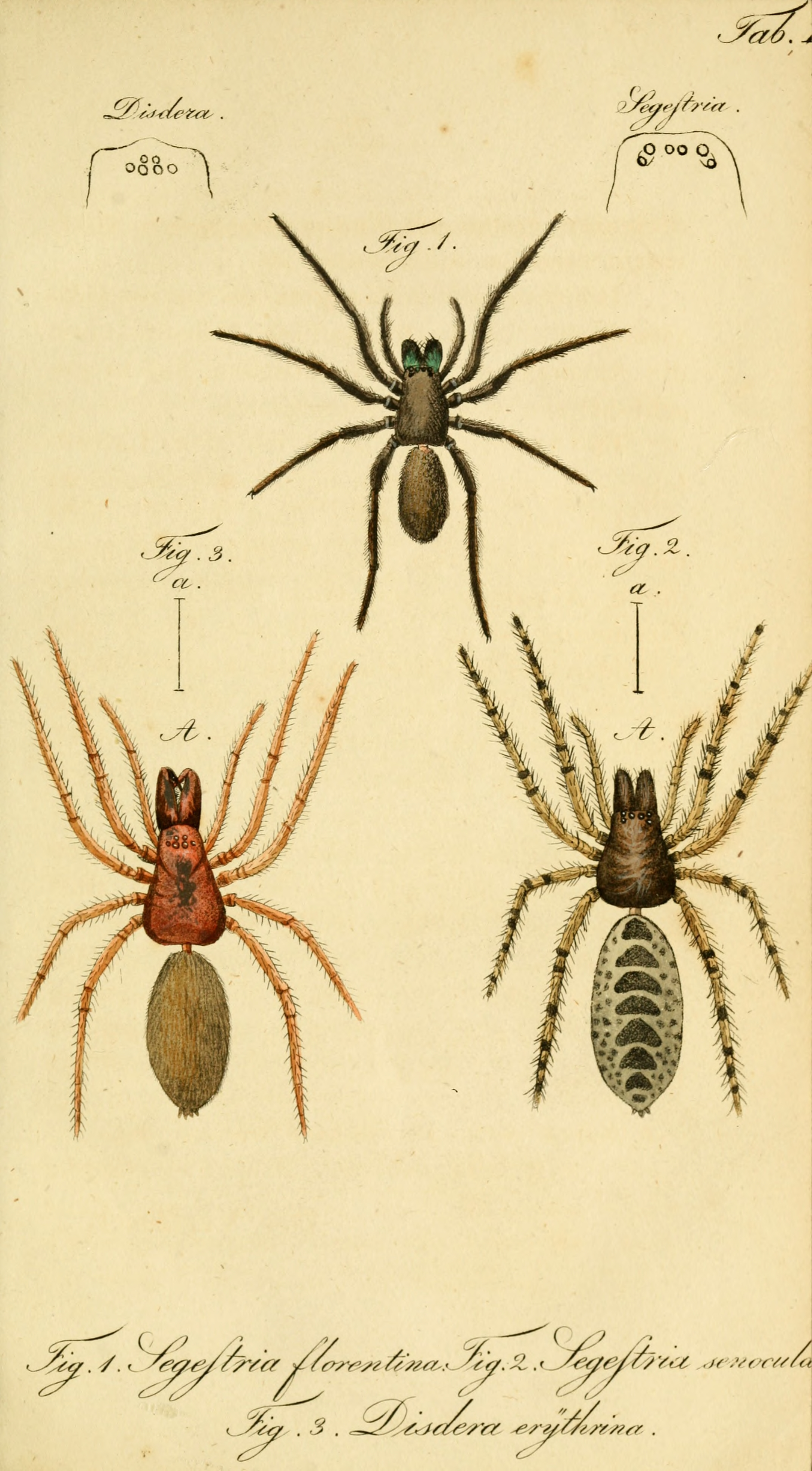 Carl Wilhelm Hahn: Die Arachniden. Erster Band. C. H. Zeh´sche Buchhandlung, Nürnberg 1831-1833, plate I